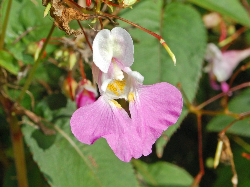 Impatiens balfourii - Casella, Genova, Italy